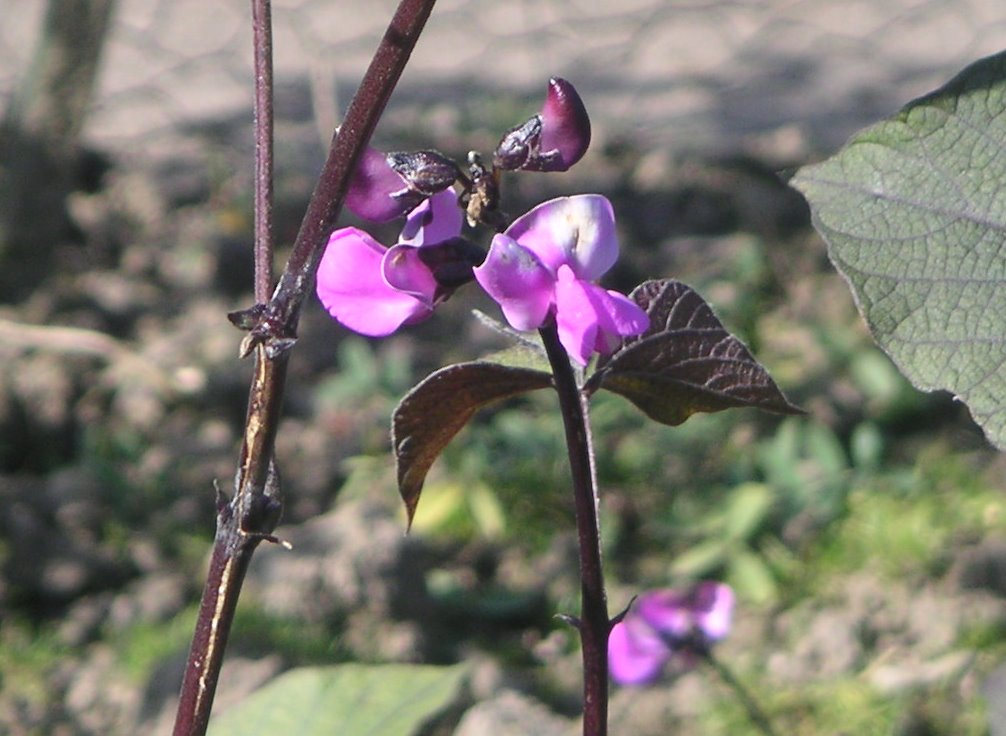 Flowers of Lablab purpureus at Botanical Garden Krefeld, Germany.